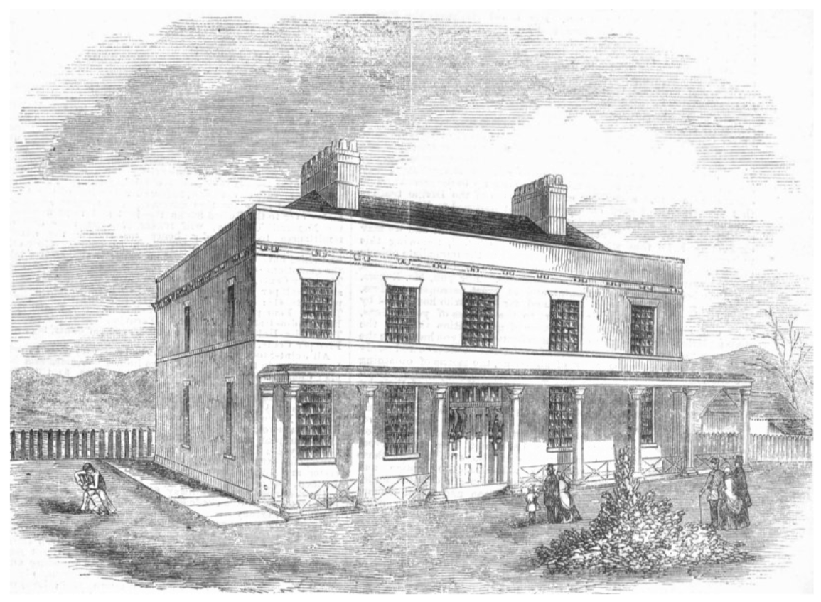 Engraving from the Illustrated London News entitled 'Asylum for the temporary reception of insane soldiers, at Fort Pitt, Chatham', Kent, 1857, shortly after the Crimean War. Now part of Fort Pitt Grammar School. It was built in 1847.